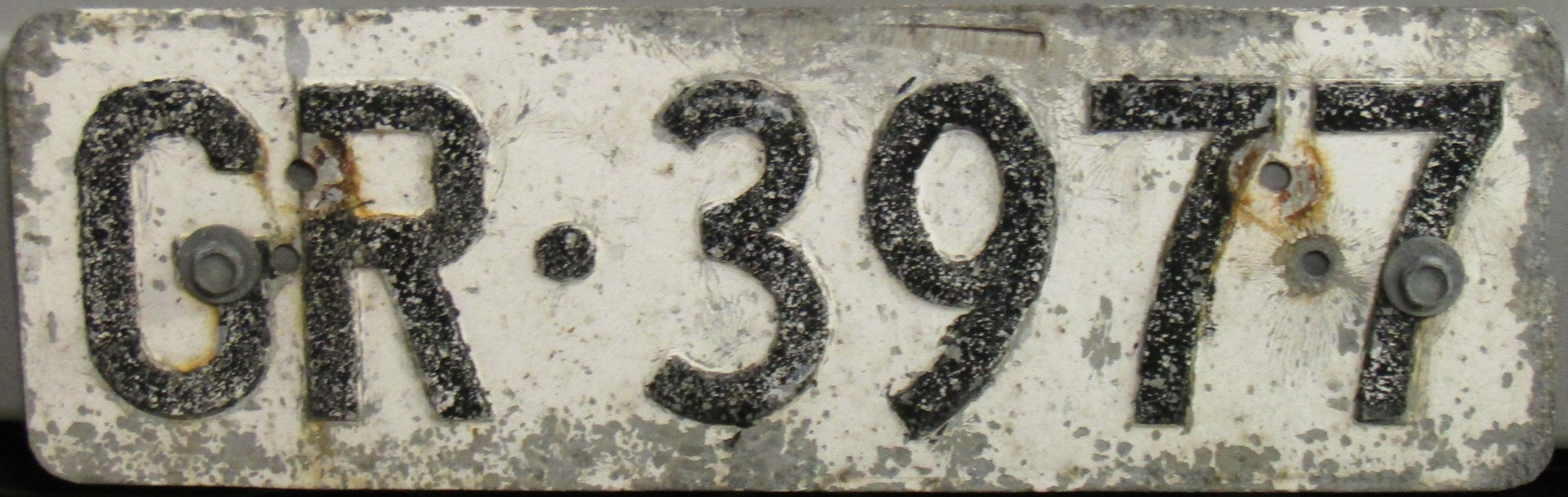 Old swiss license plate, Graubünden